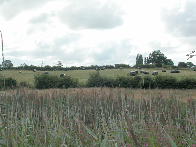 Hay Crop, round silage bales in the background